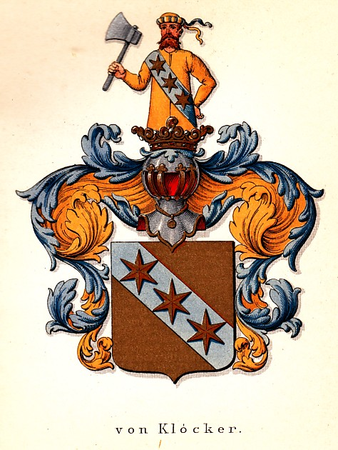 Coat of arms of the Klöcker family